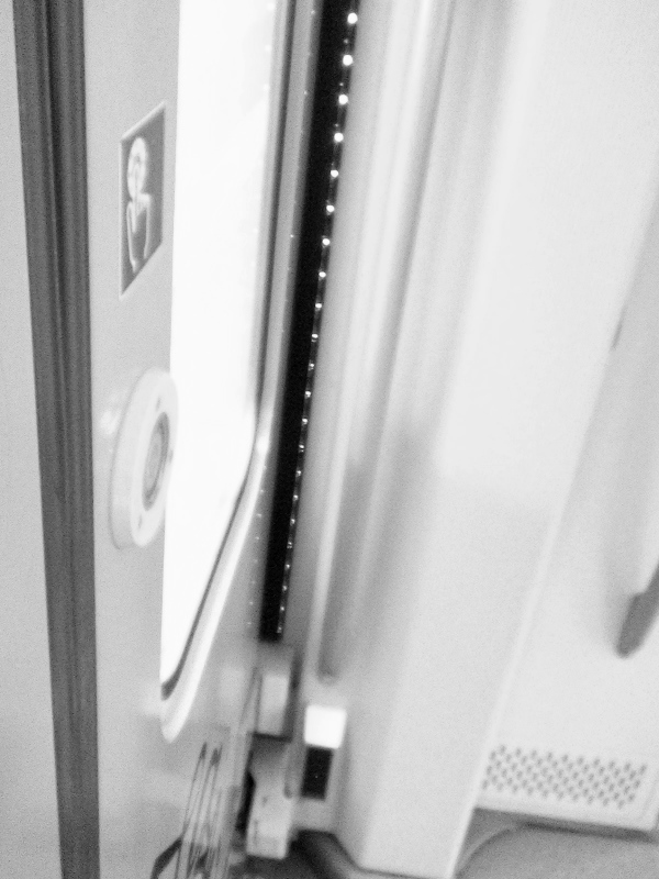 Photoelectric sensor of the doors of a DBAG Class 423